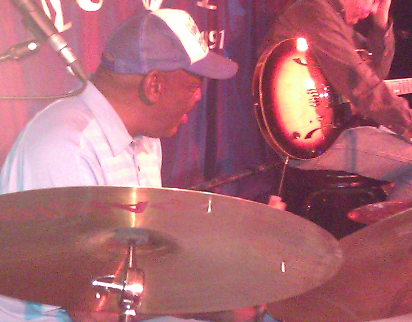 Photo of Soul Drummer Jerome Teasley at the Rhythm Room in Phoenix, AZ.